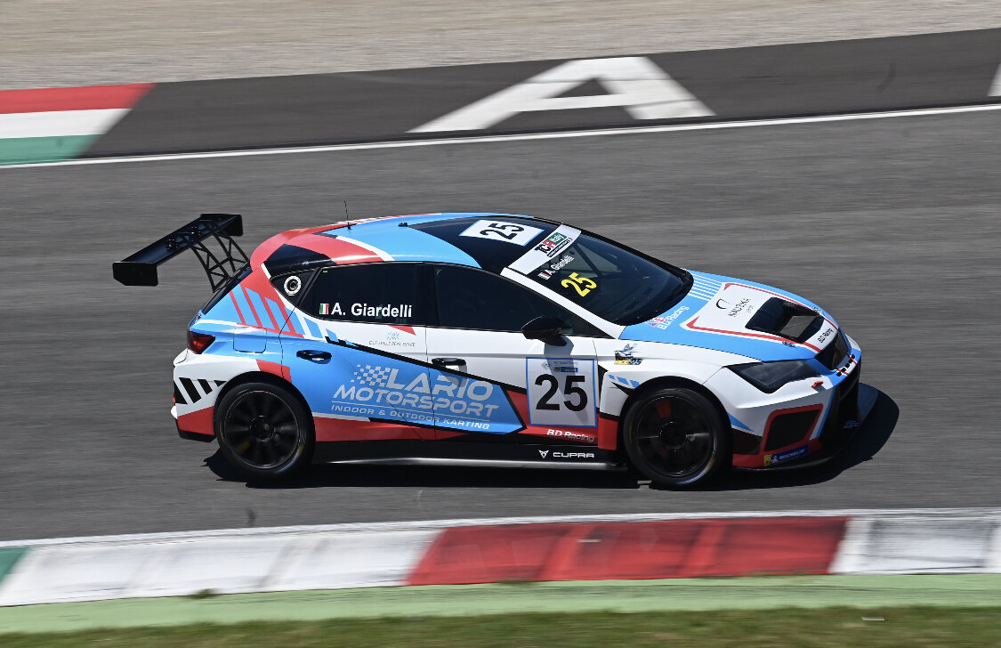 Giardelli during his debut race in TCR Italy on the Mugello circuit